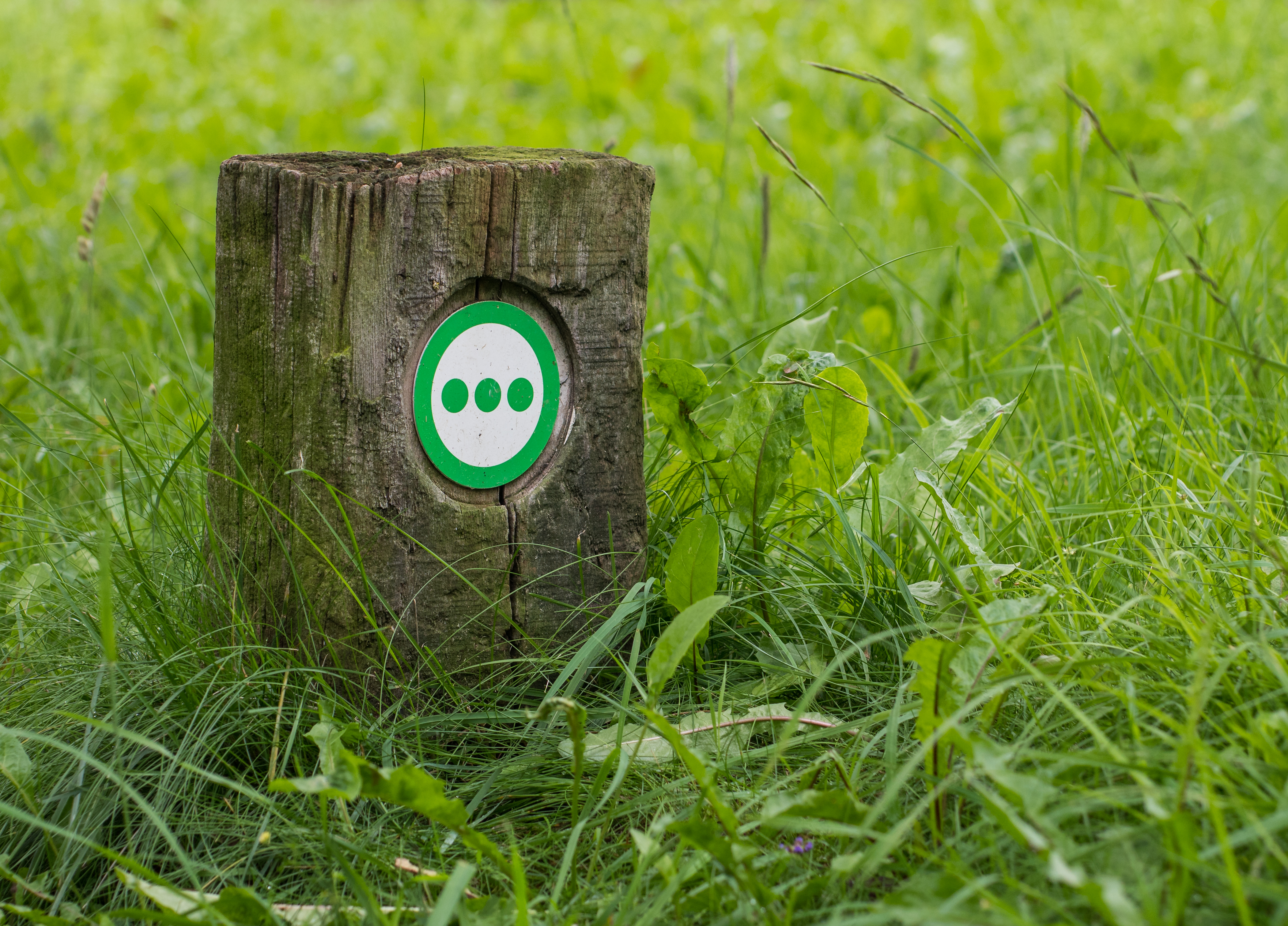 Trail marking of the Green Ring trail. Vitoria-Gasteiz, Basque Country, Spain